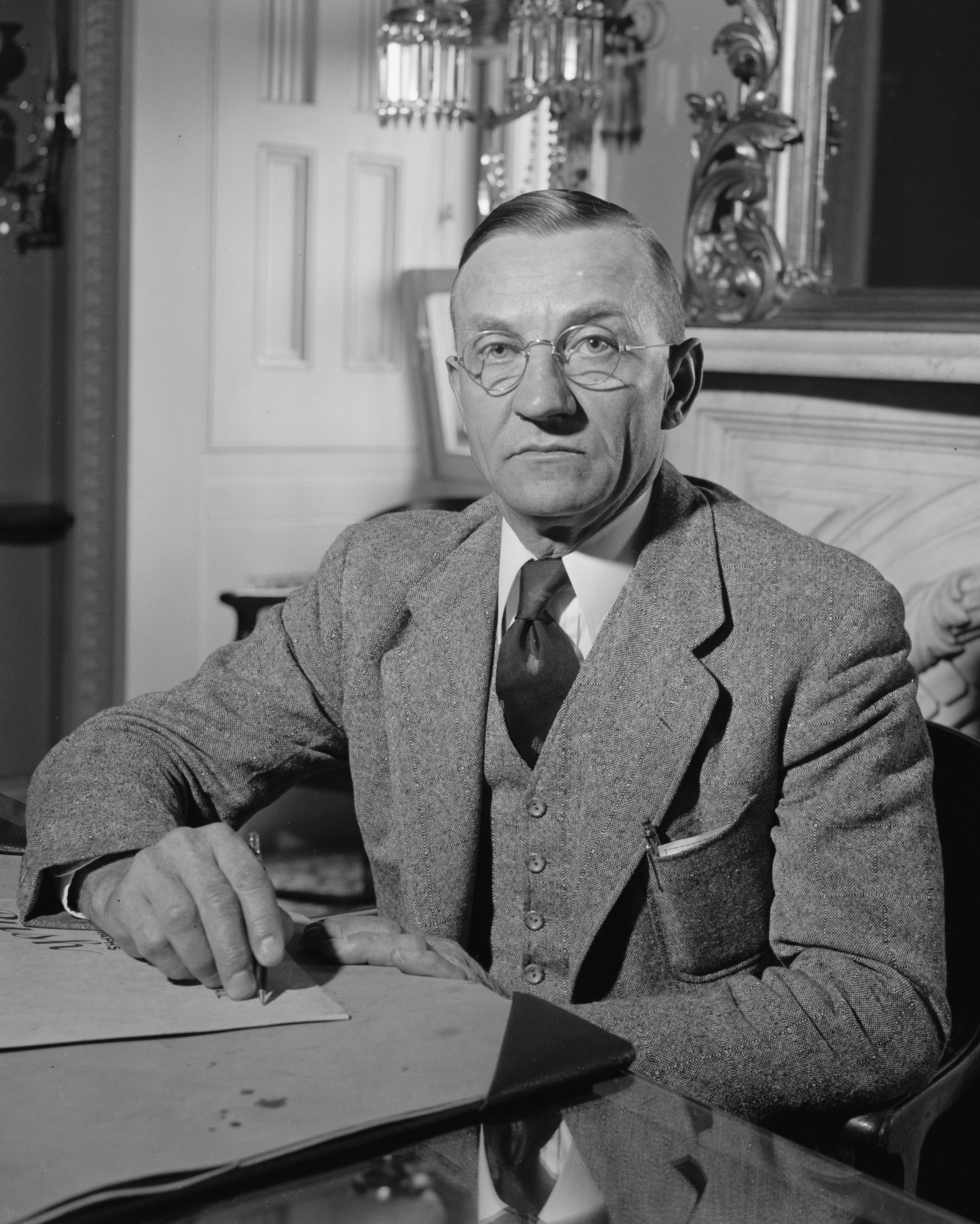 Title: Rep. Chester Gross of Pa., 10/26/39 Abstract/medium: 1 negative : glass ; 4 x 5 in. or smaller